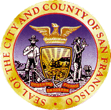 Seal of the City and County of San Francisco.